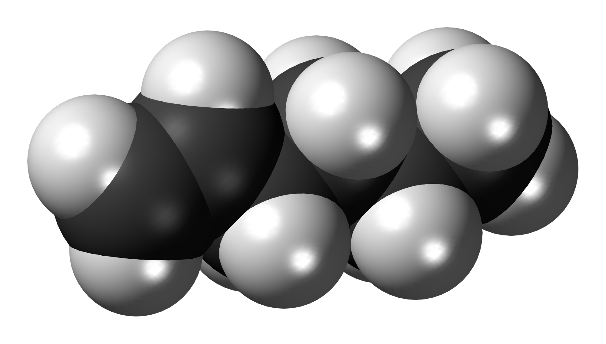 Space-filling model of the 1-hexene molecule, also known as hex-1-ene, an alkene. Colour code: Carbon, C: black Hydrogen, H: white